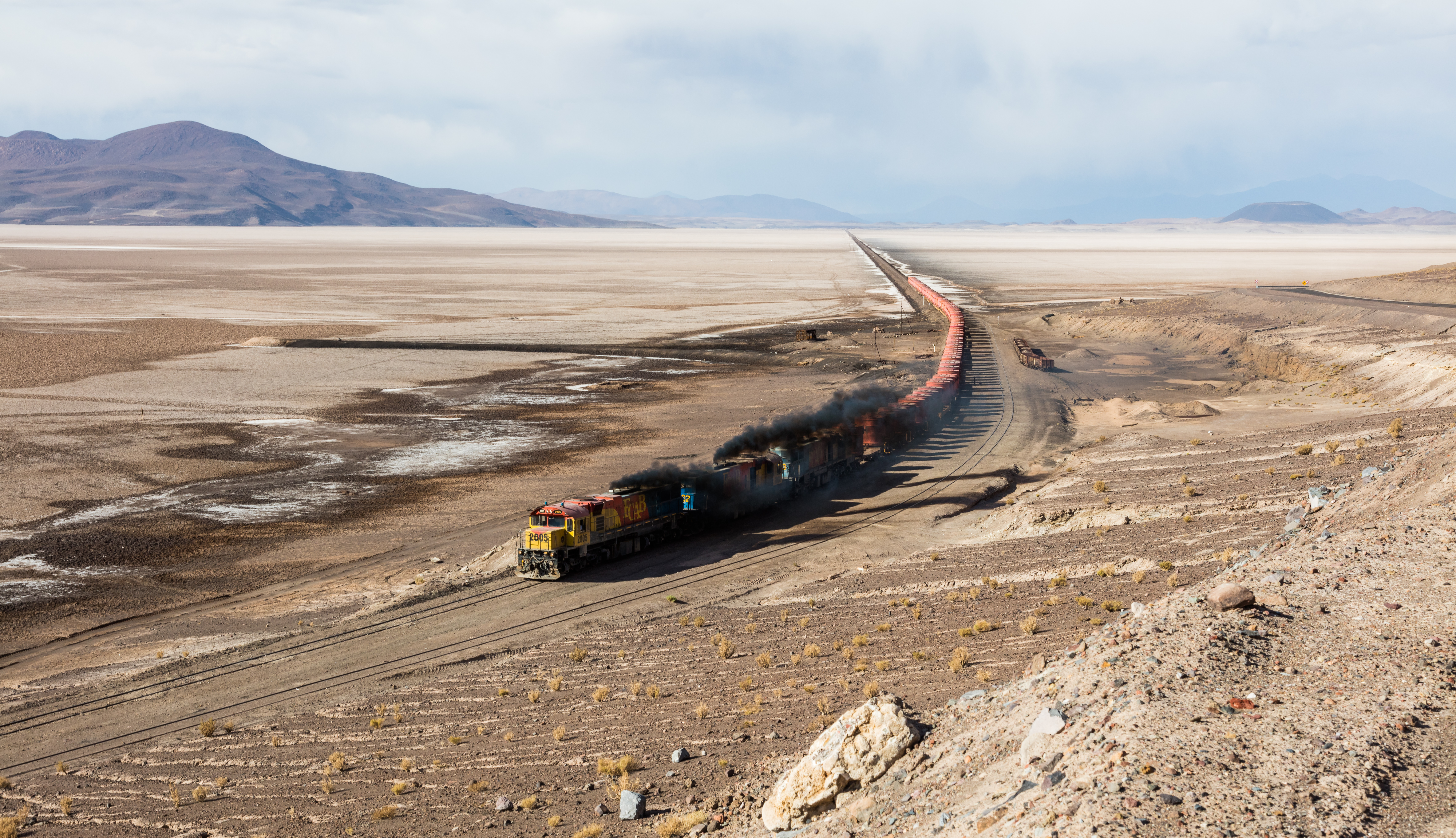 FCAB railway crossing the Carcote salt flat, northern Chile. The train covers the route Antofagasta – Calama – Ollagüe – Uyuni – La Paz, from 0 metres above level in the coastal city of Antofagasta to over 4,500 metres (14,800 ft) and has a total length of 1,537 km (955 mi). The locomotives have engines EMD GR12 2402, Clyde GL26C-2 2010 and Clyde GL26C-2 2005 whereas the Carcote salt flat has a surface of 108 square kilometers (42 sq mi).